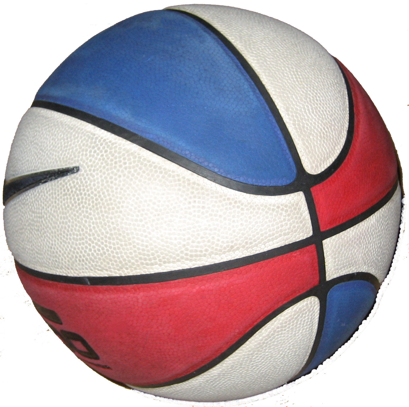 A colored basketball with no background